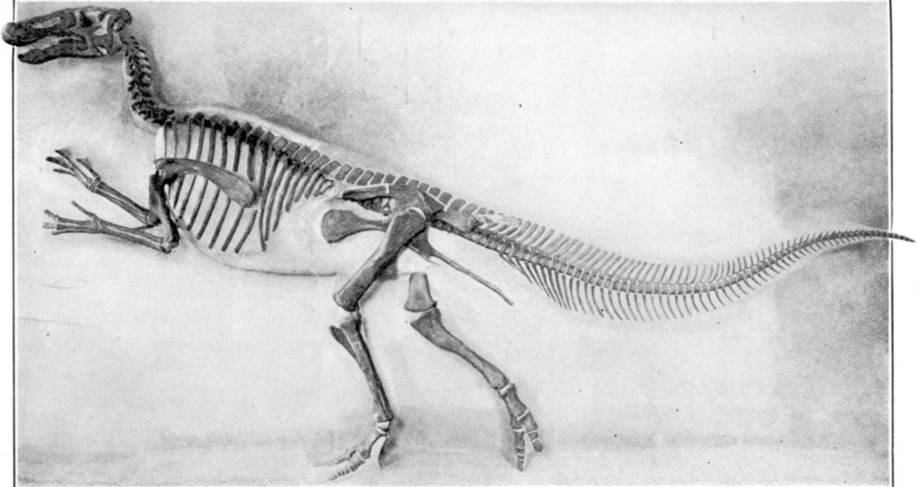 Edmontosaurus annectens skeleton YPM 2182 in Yale University Museum, first actual dinosaur skeleton mounted in the US.